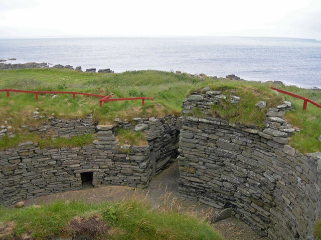 The interior of Burroughston Broch from the highest level, with the entrance corridor in the centre of the image. This image is from a source that is in a creative commons from the british geograph project of the UK Ordnance Survey. Here is the url where the image can be found: [1]. Attribution is to the author of the work: C. Michael Hogan